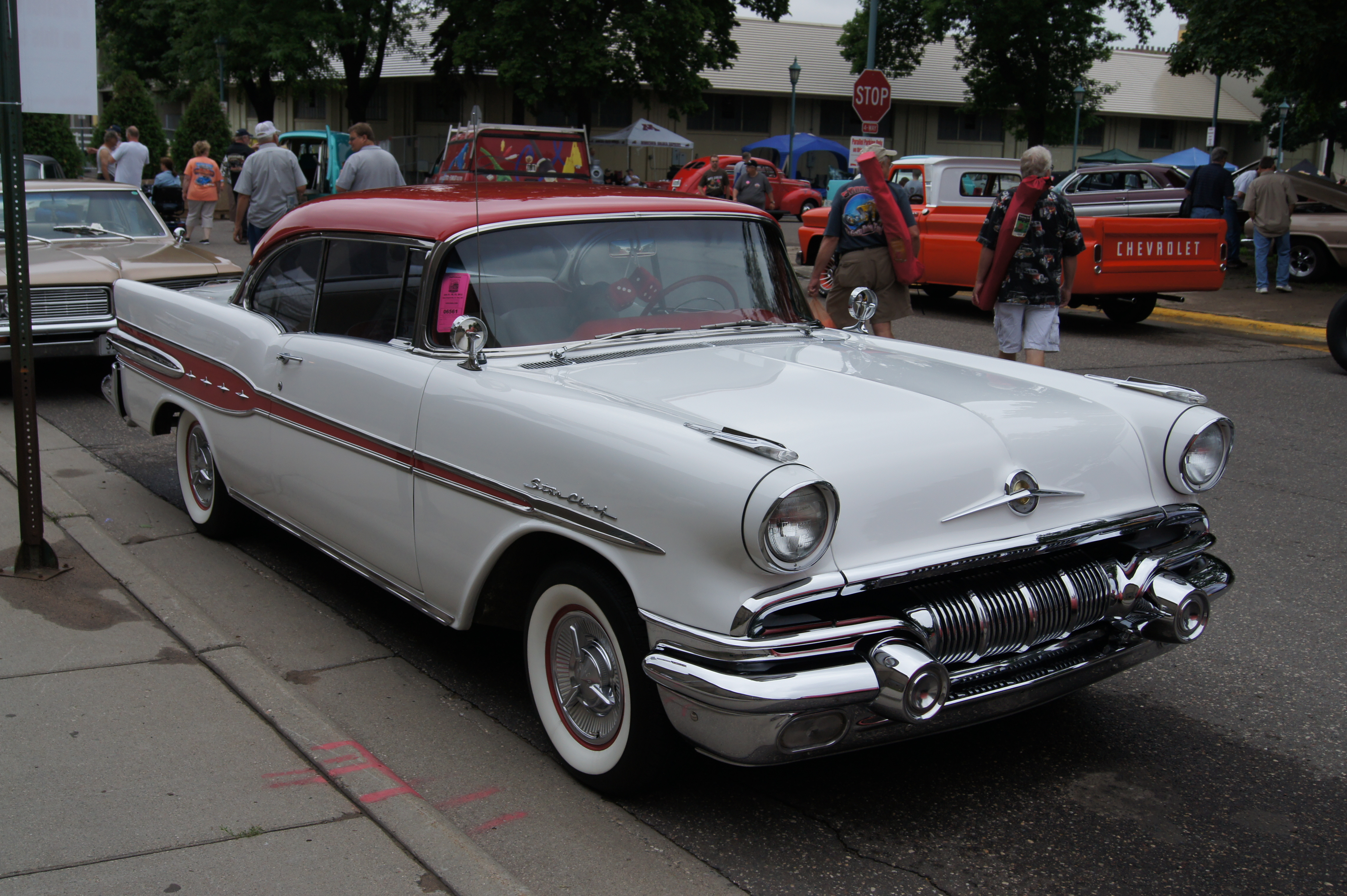 MSRA “BACK TO THE 50′s” 40th ANNIVERSARY June 21-23, 2013 State Fairgrounds St. Paul Minnesota More Car Pictures